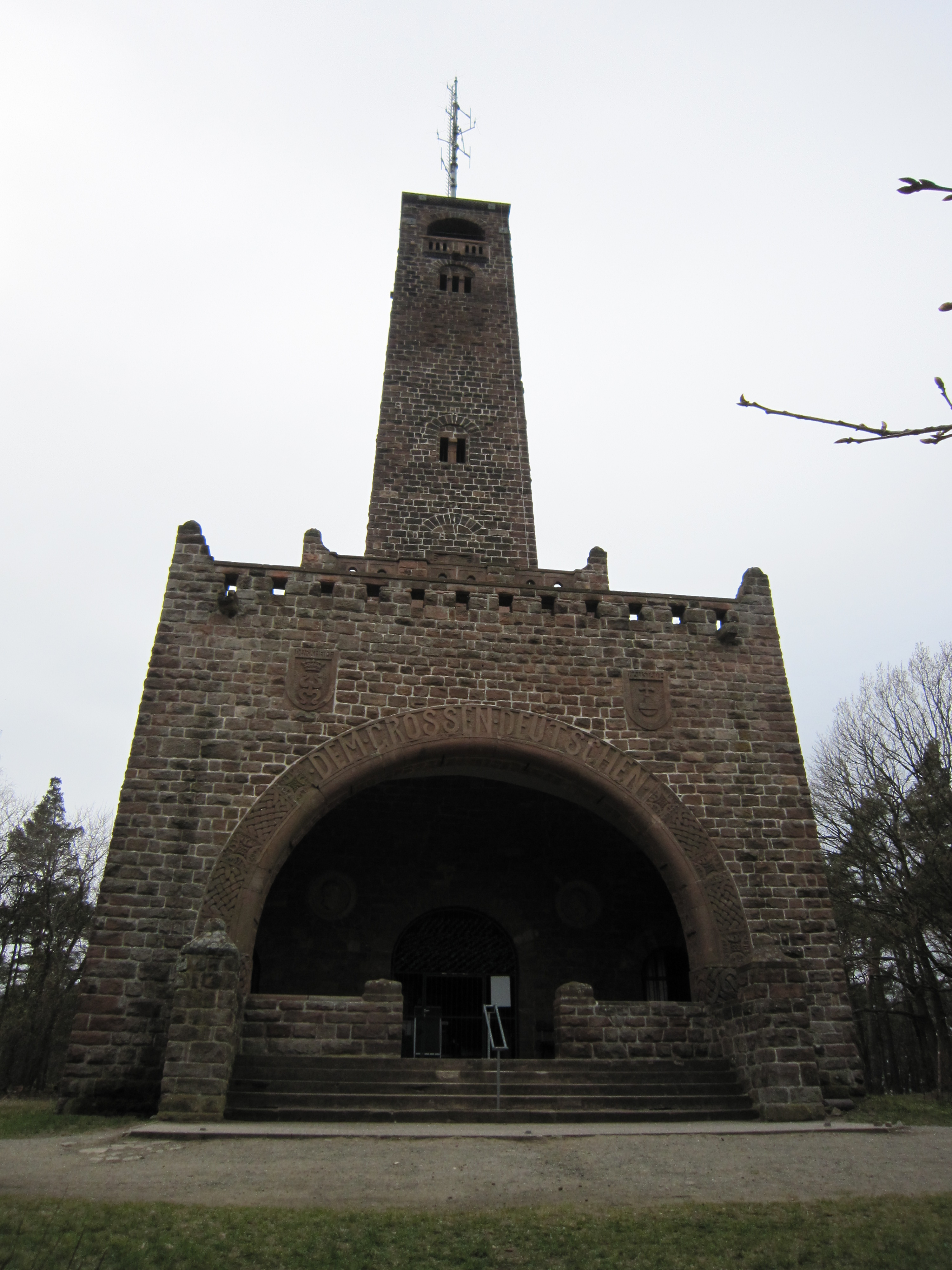 Rear view of the Bismarck towerPälzisch: Rickosicht vumm Bismarckturm